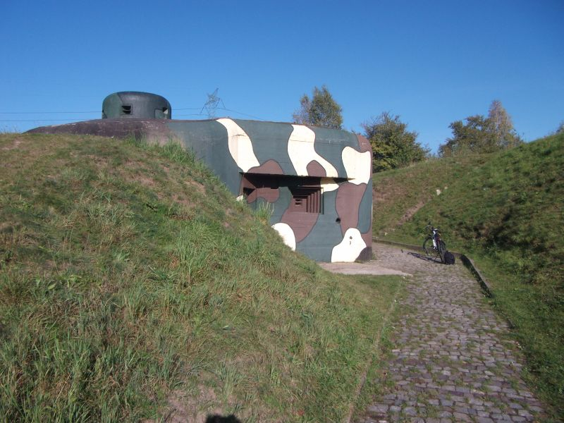 Bunker number 52 in Dobieszowice. At present museum of the fortification.